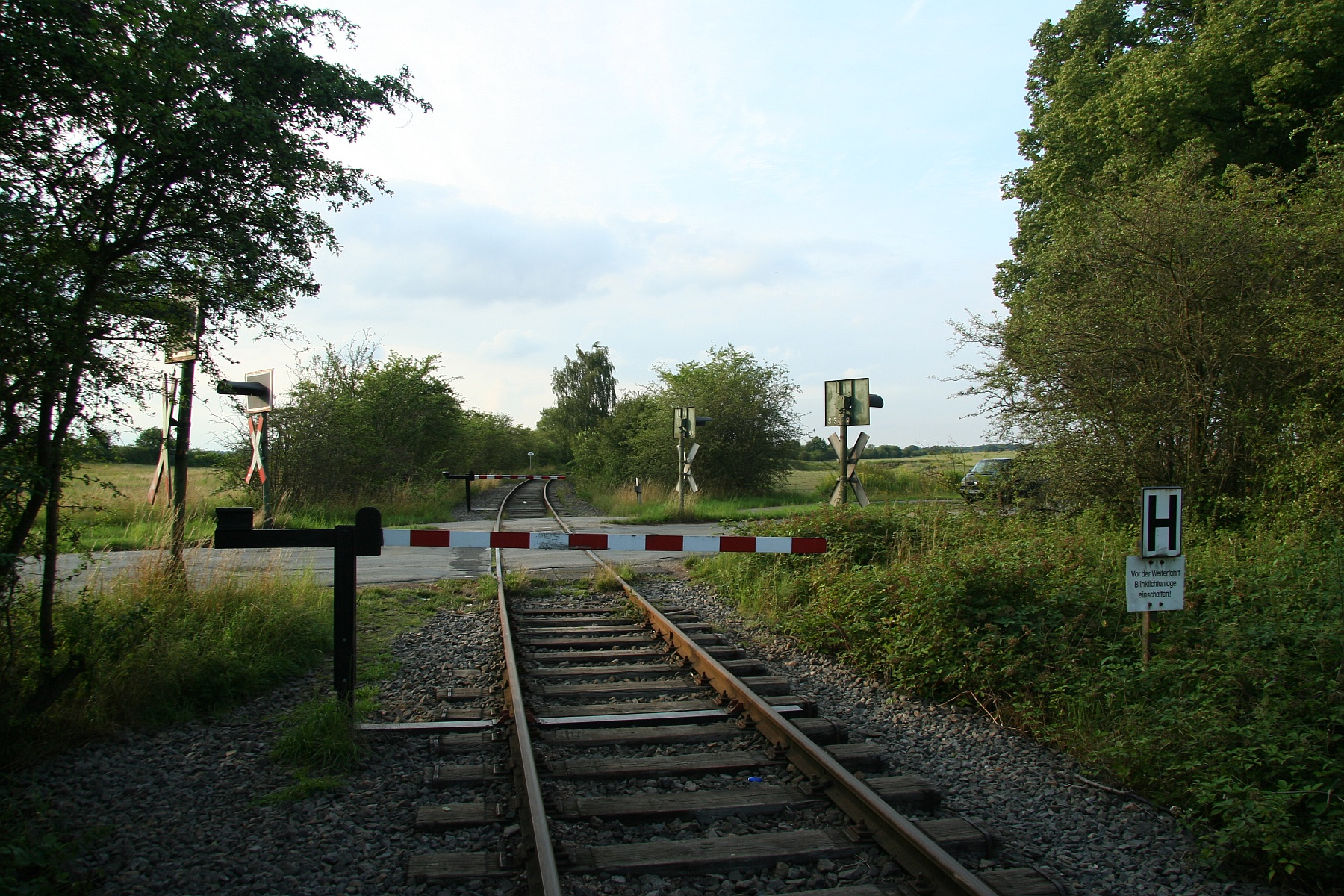 Remnants of "Kaiserbahn" railway line near Ratzeburg, modified to be used by recreational draisines